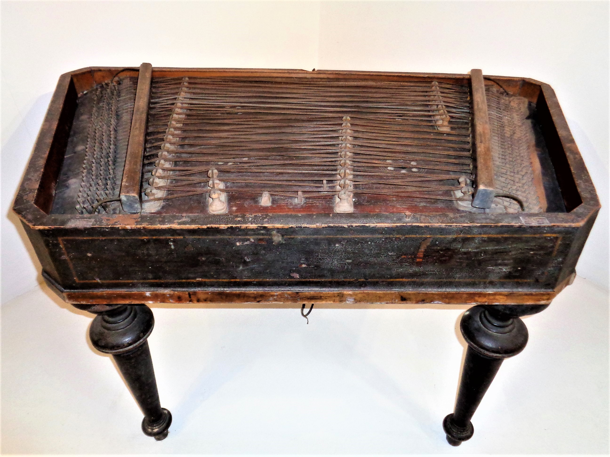 Cimbule - old musical instrument from Međimurje in the Medjimurje County Museum in Čakovec (Croatia)